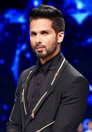 Shahid Kapoor at the GQ Fashion Nights in 2017